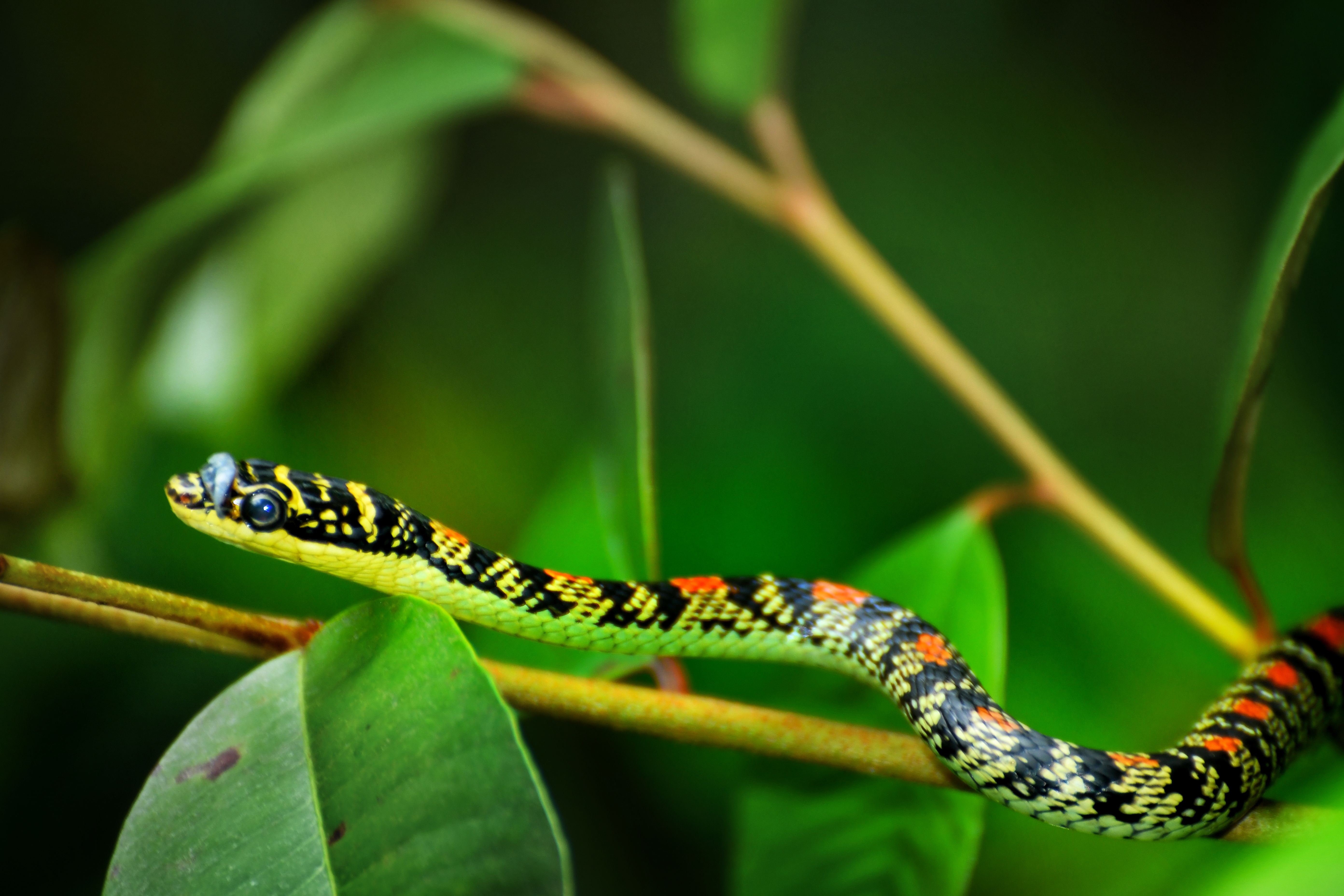 Chrysopelea ornata is a colubrid snake found in both South and Southeast Asia.